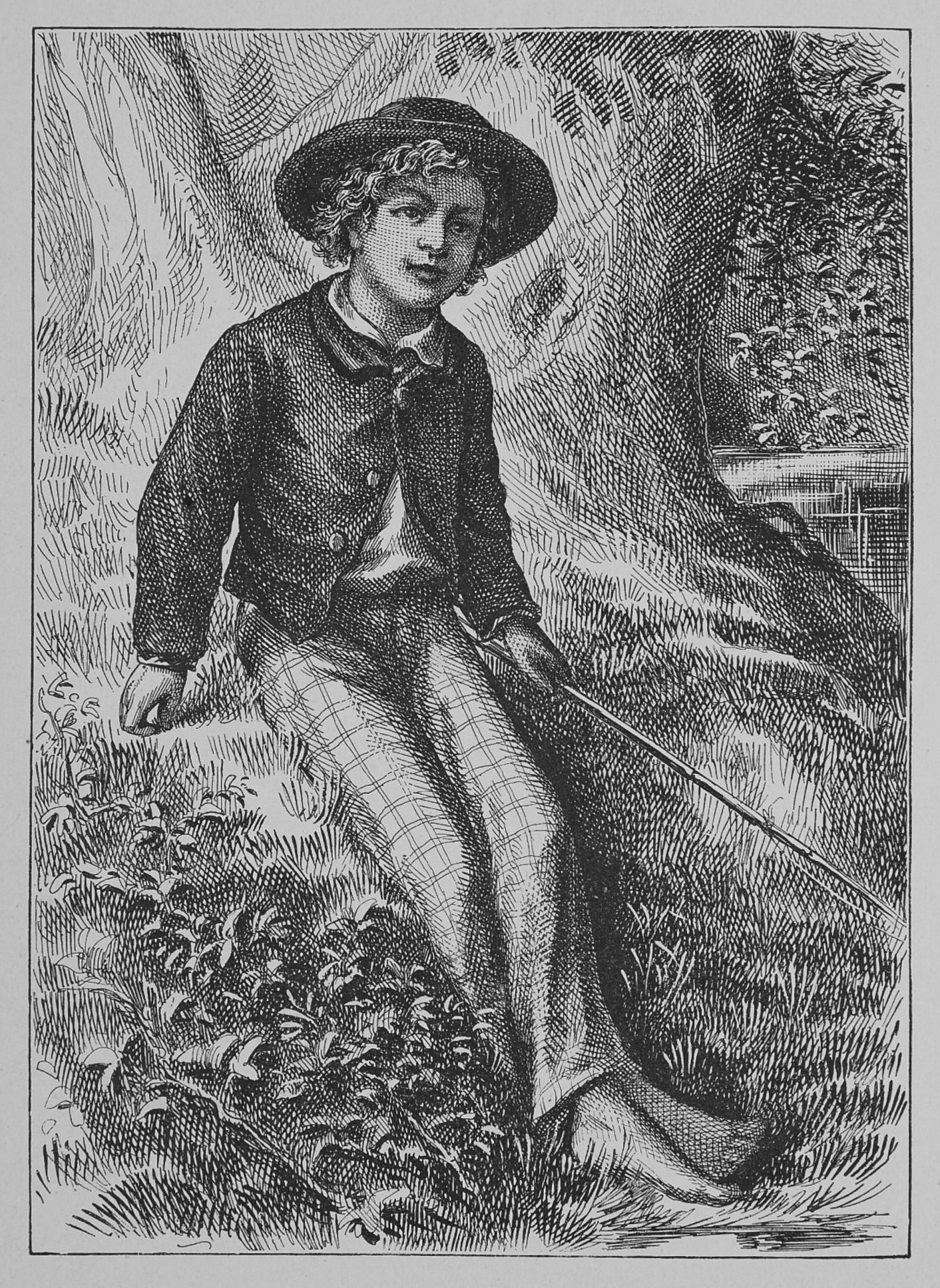 Frontispiece from The Adventures of Tom Sawyer by Mark Twain (1st ed., 1876): [Tom Sawyer fishing]